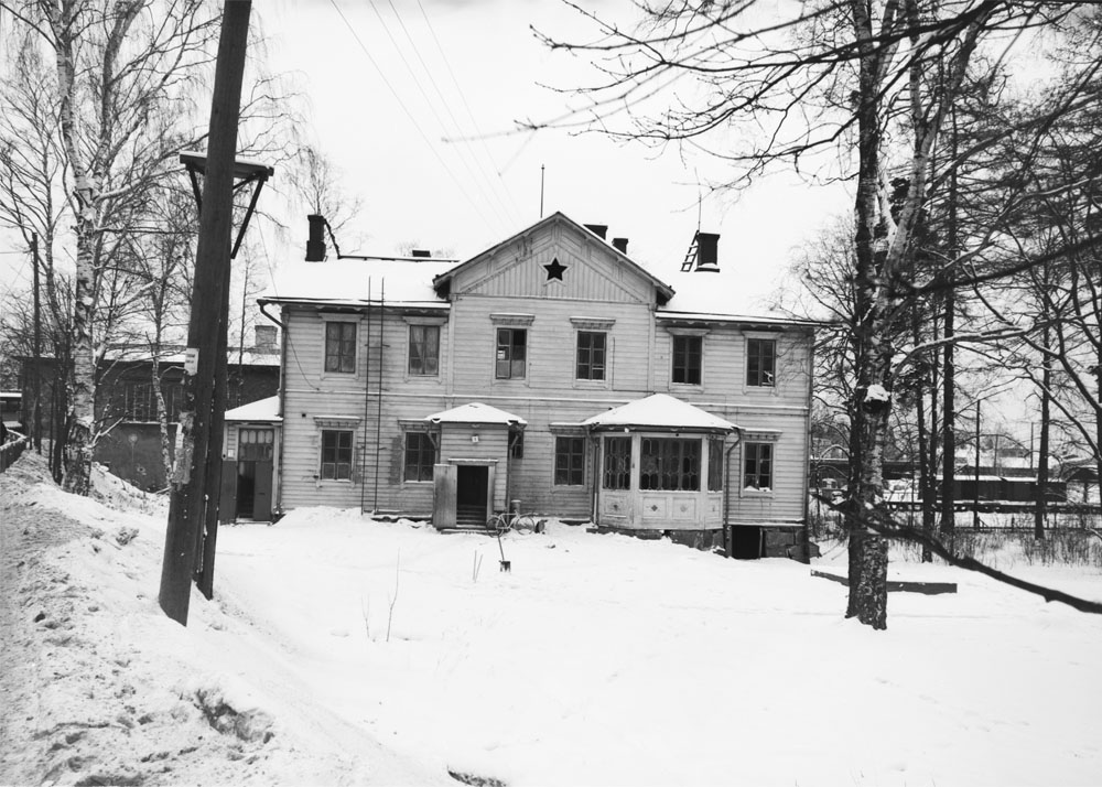 Latokartanontie 1 (Helsingintie 1) 1969